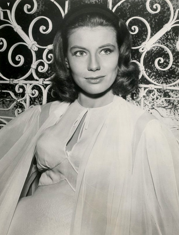 Photo of Jacqueline Beer, who played Suzanne, the receptionist, in 77 Sunset Strip.